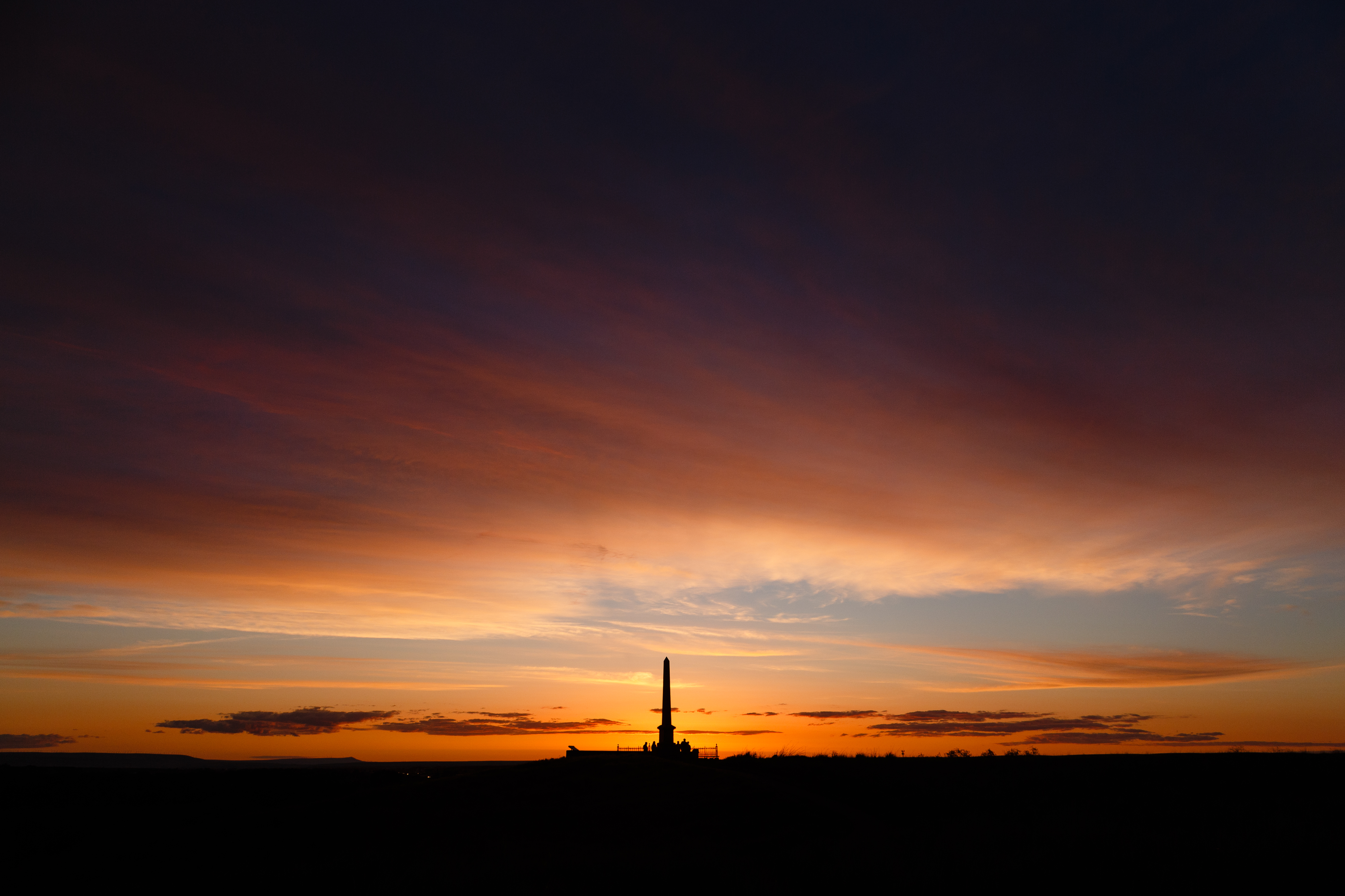 The Whitman memorial obelisk was constructed on the former mission site's prominent hill in 1897. Unobstructed views to the west make the hill a popular destination for visitors to watch the sunset.